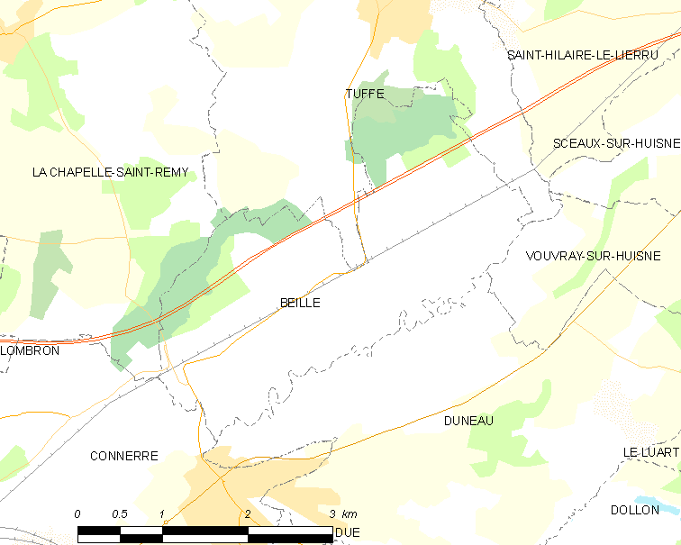 Map of French municipality